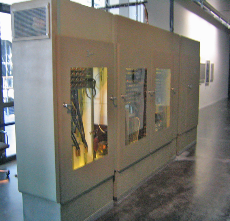 Konrad Zuse's Z22 computer, built 1956.